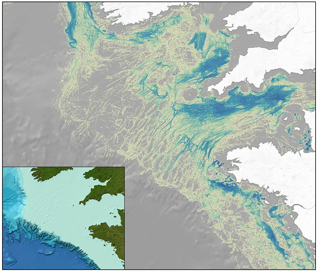 Fishing activities extracted from Automatic Identification Data of EU trawlers over the continental shelf, highlighting the correlation with the bathymetry over the area (bottom-left, from the GEBCO world map 2014).; Published in: Vespe M., Gibin M., Alessandrini A., Natale F. Mazzarella F., Osio G., ‘Mapping EU fishing activities using ship tracking data’, Journal of Maps, (see Main Map for full resolution).